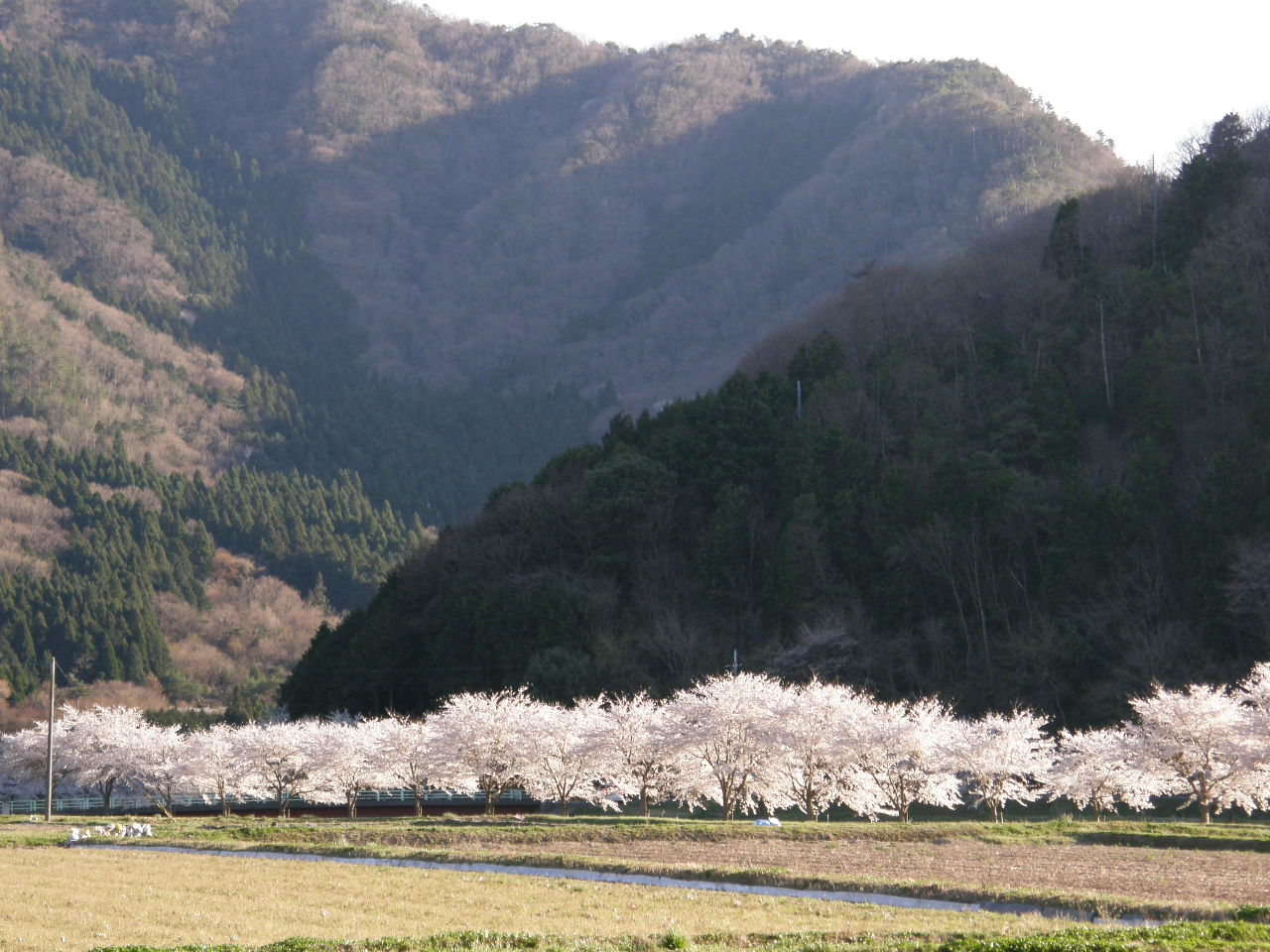 Cherry blossom of Mukogawa River,篠山市波賀野